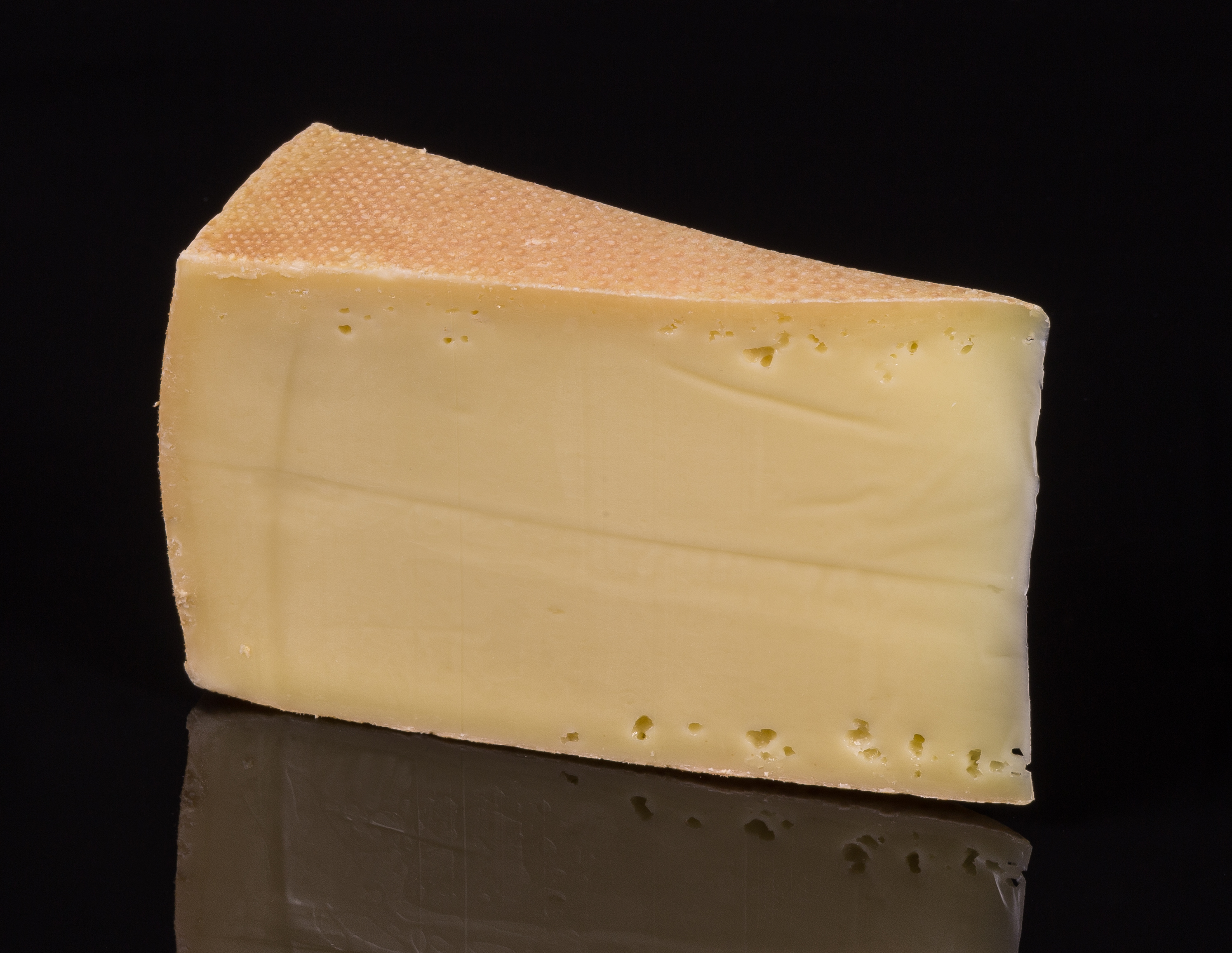 Bergkäse, Mountain cheese, unknown origin, Label Milfina The making of this work was supported by Wikimedia Austria. For other files made with the support of Wikimedia Austria, please see the category Supported by Wikimedia Österreich.